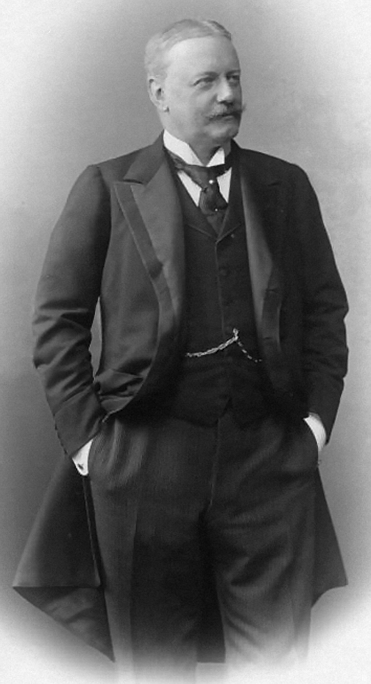 Bernhard von Bülow, German statesman who served as Chancellor of the German Empire from 1900 to 1909.